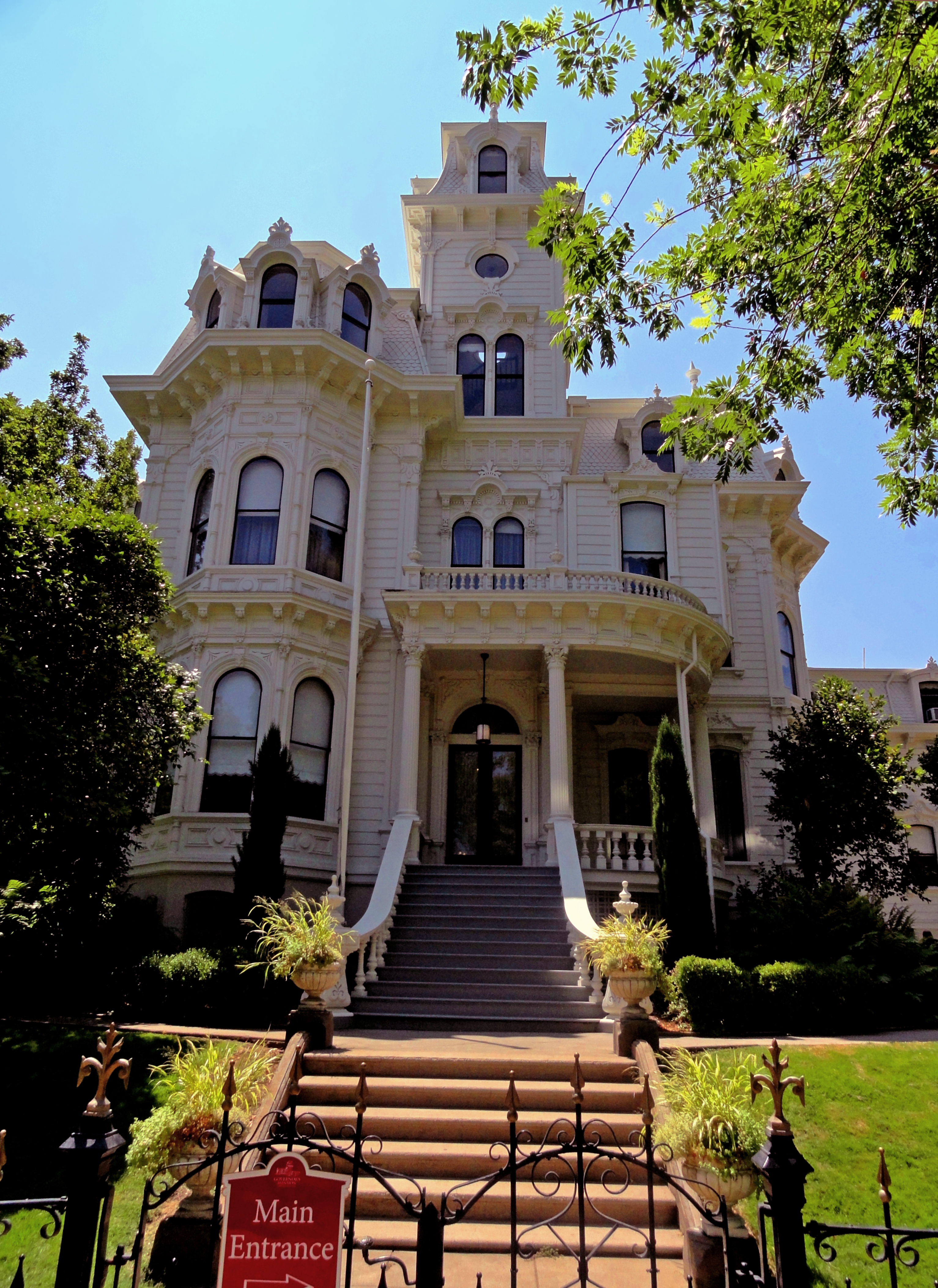 California Governor's Mansion